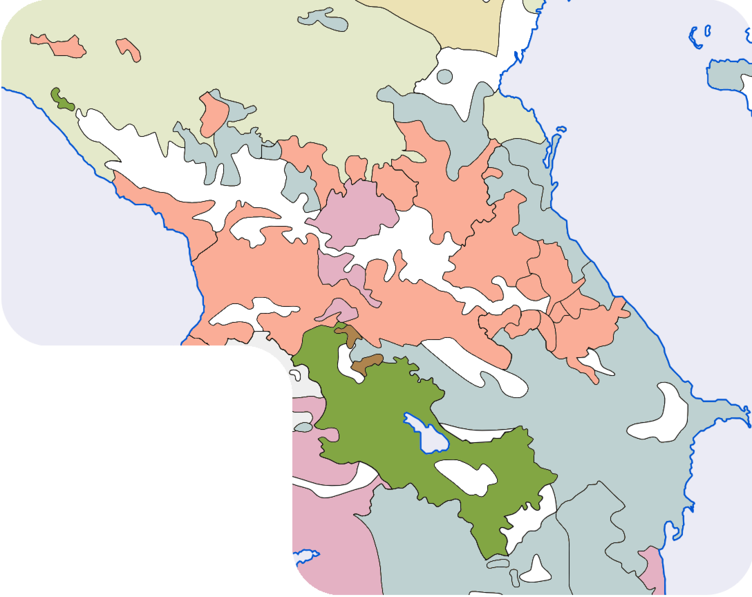 Map of the main ethnic groups in the Caucasus.